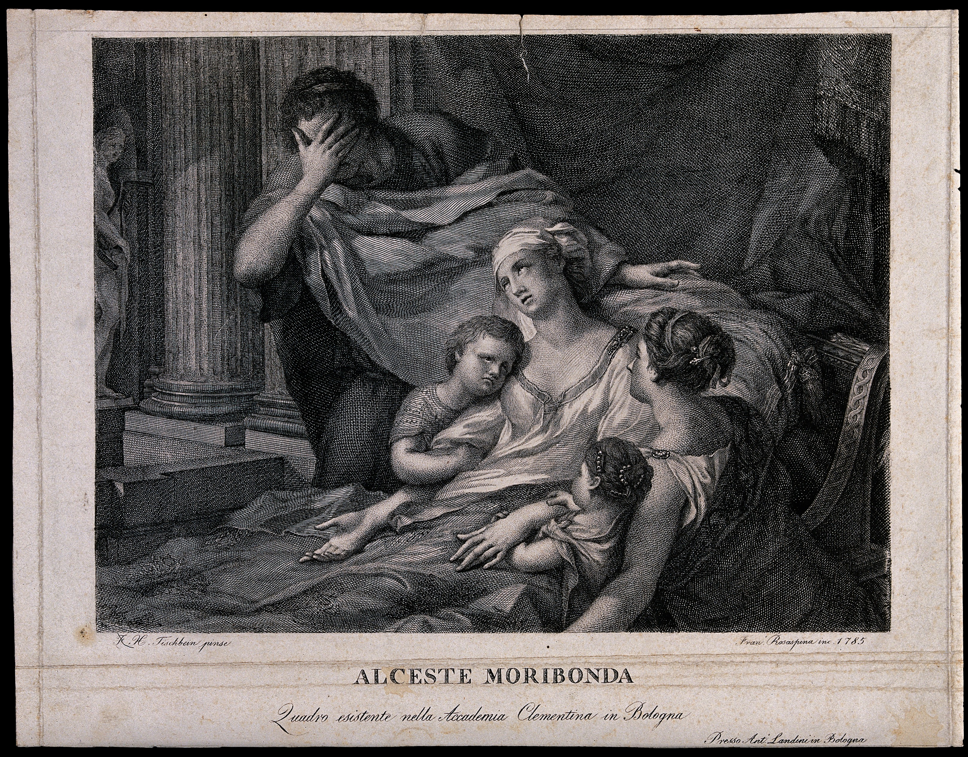 The dying Alcestis is surrounded by her family. Engraving by Francesco Rosaspina after J.H. Tischbein, 1785. Iconographic Collections Keywords: Francesco Rosaspina; Johann Heinrich Tischbein